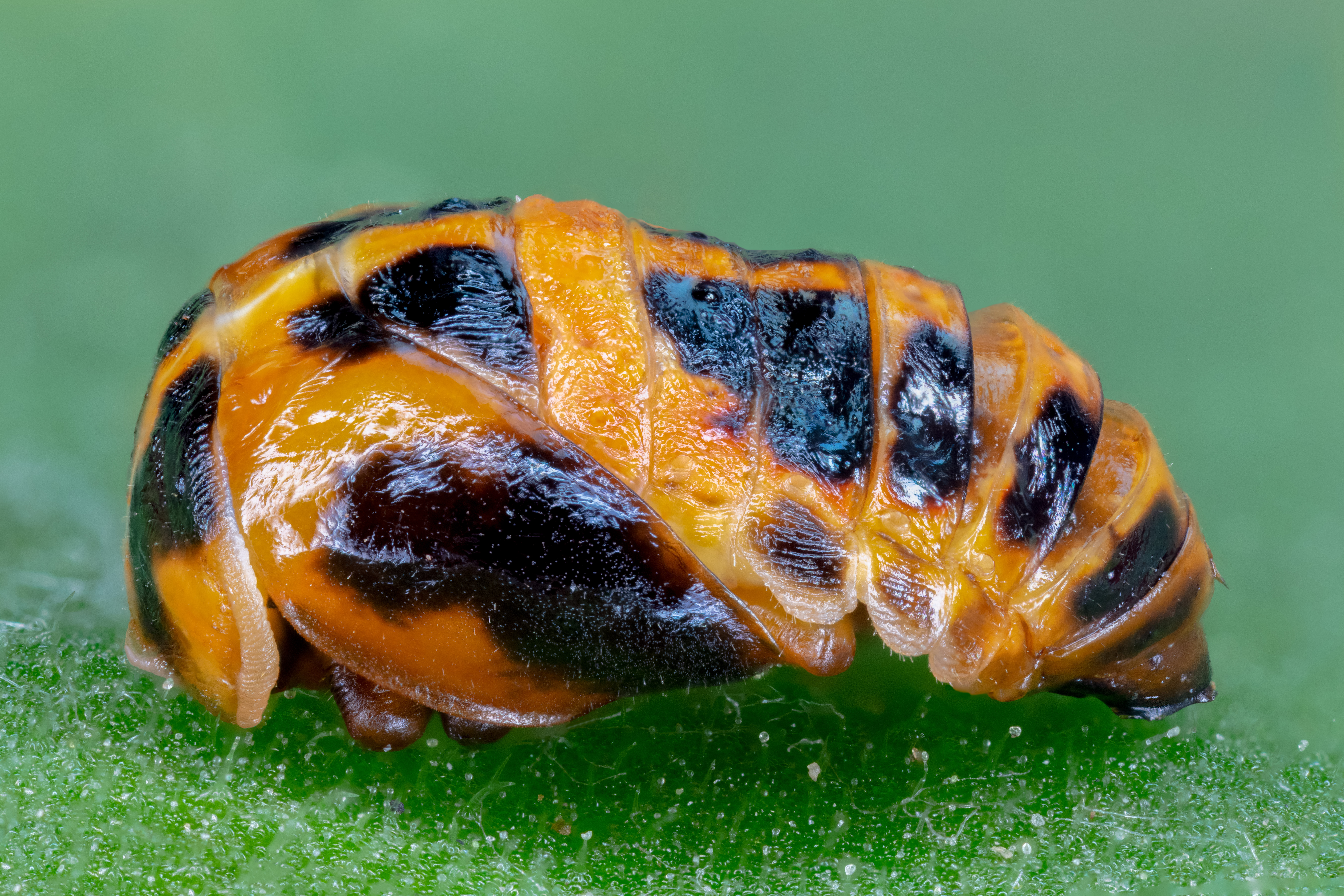 Coccinellidae Pupa, Hartelholz, Munich, Germany